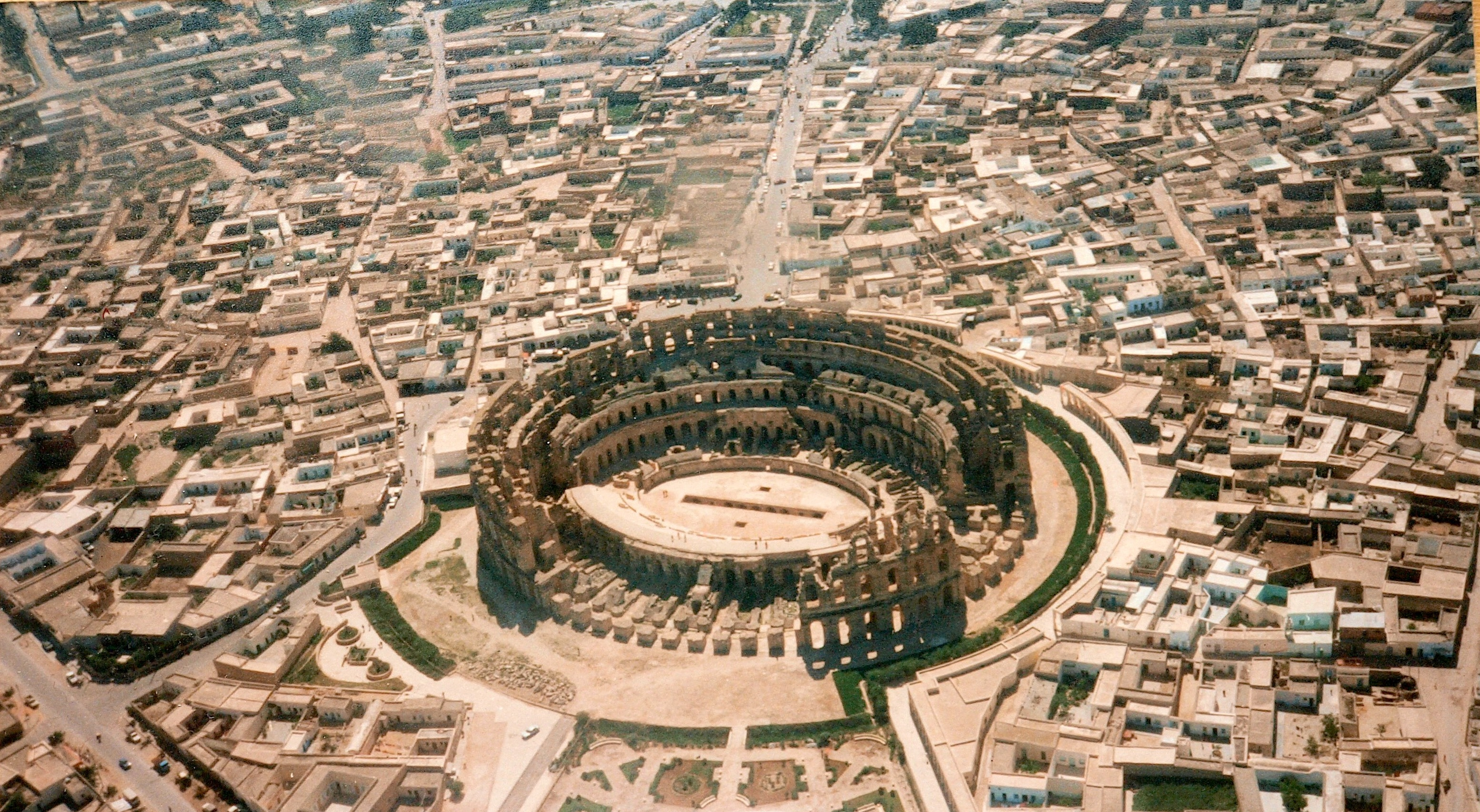 El Djem Amphitheater aerial view